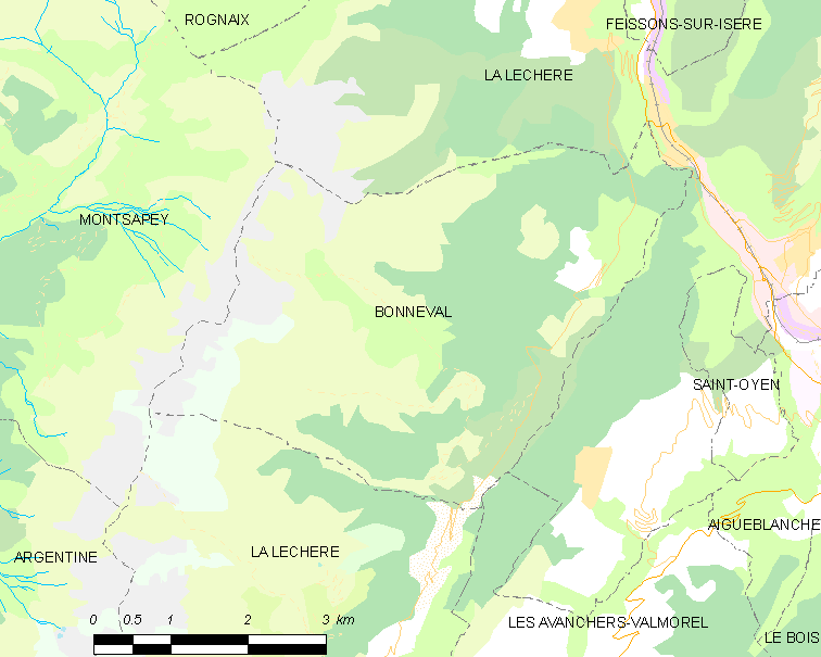 Map of French municipality